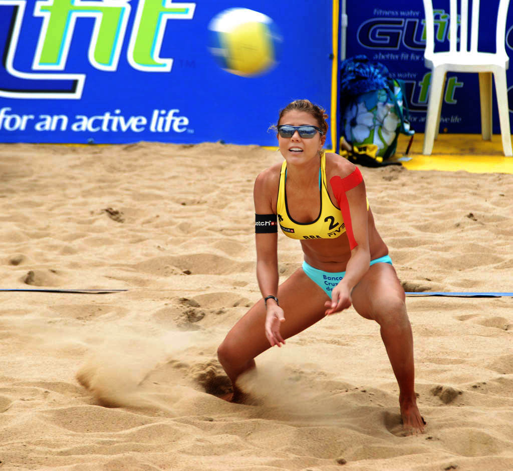 Beach volley Brazilian player Leila Barros in 2007